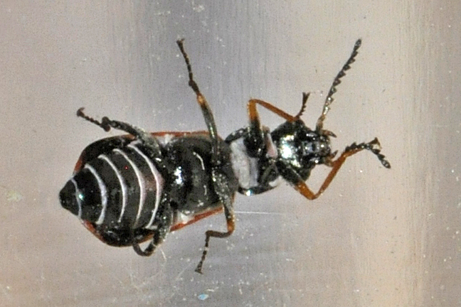 Anthocomus equestris (Fabricius, 1781). Germany: Niedersachsen, Göttingen.